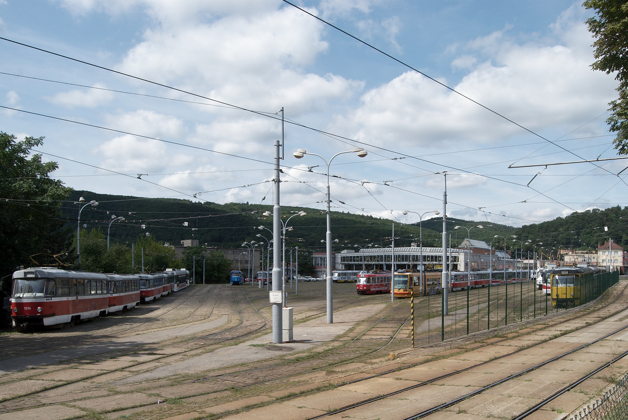 Tram depot in Pisárky seen from Hlinky Street.